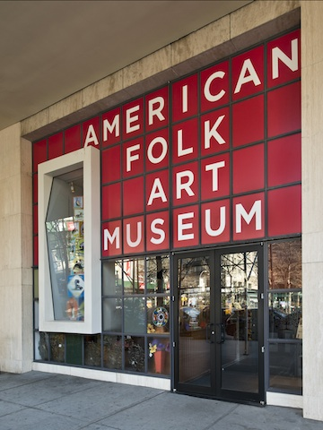 Columbus Street facade of the American Folk Art Museum — at 2 Lincoln Center, Upper West Side, NYC.